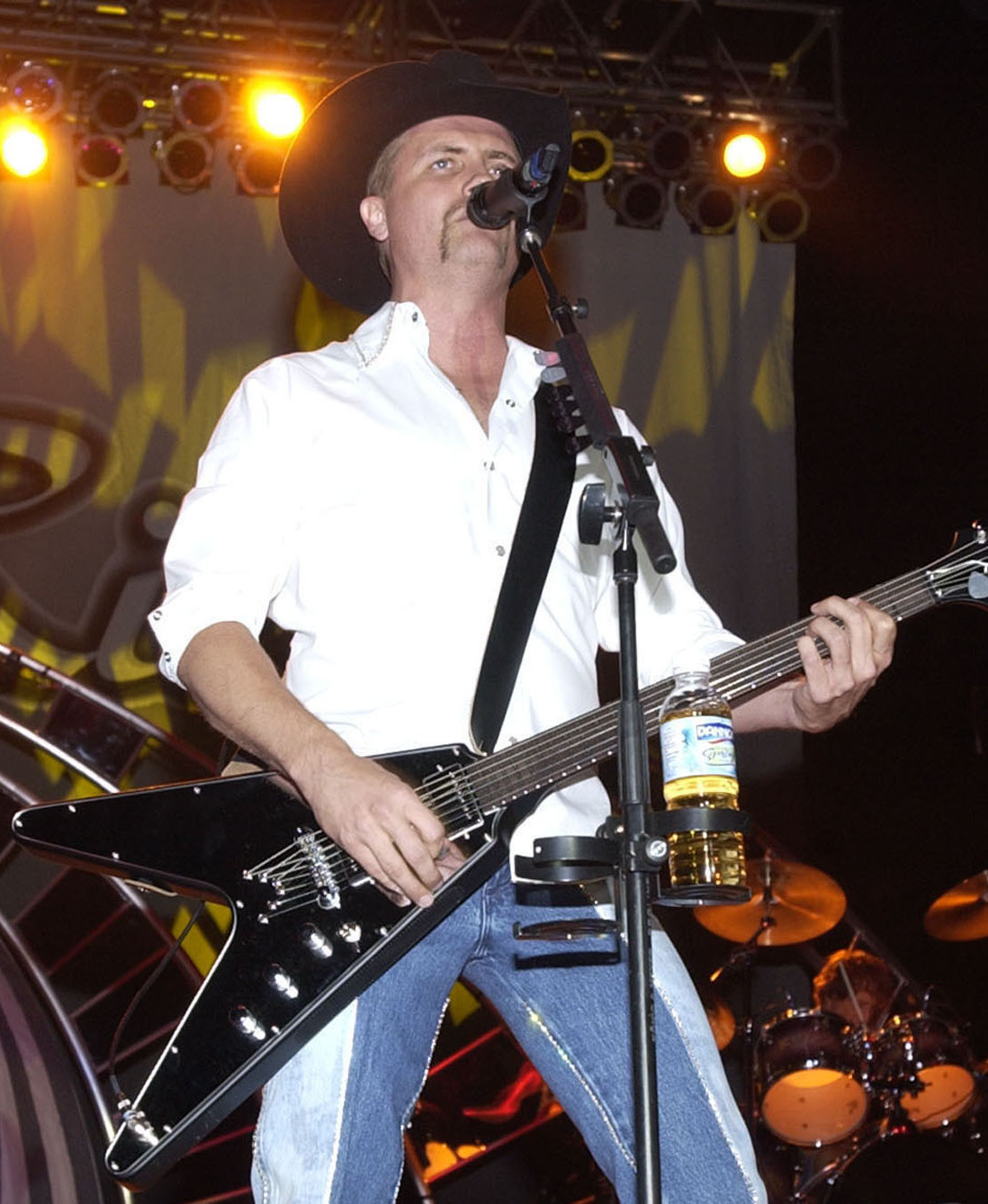 050527-N-1854W-080 Virginia Beach, Va. (May 29, 2005) - John Rich from the country band “Big and Rich” performs on stage at the Patriotic Festival held on the Virginia Beach Oceanfront. The festival included various concerts, live military demonstrations, aircraft flyovers and fireworks. The Patriotic Festival was sponsored by the USO of Hampton Roads to celebrate the Memorial Day weekend.